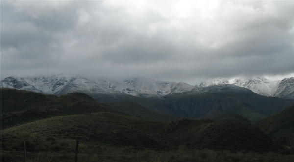 Swartberg mountains covered with snow in July 2006, taken near Oudtshoorn.